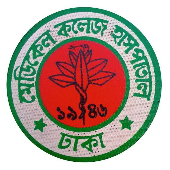 It's the official emblem of DMCH. Downloaded Content